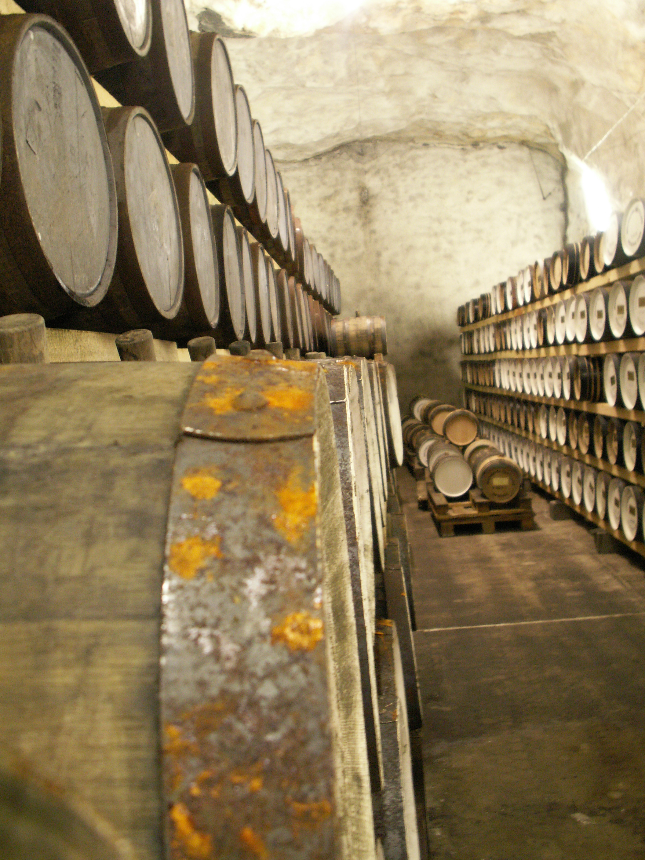 Side panel of whisky barrel with some ruststains is in focus, behind you can se parts of Mackmyra Swedish Whisky gruvlager (mine-warehouse) at Bodås.